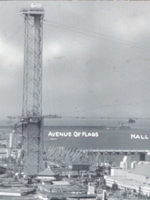 This is a crop showing one tower of the Sky Ride. Cropped from :Image:6a28300r Century of Progress Panorama.jpg